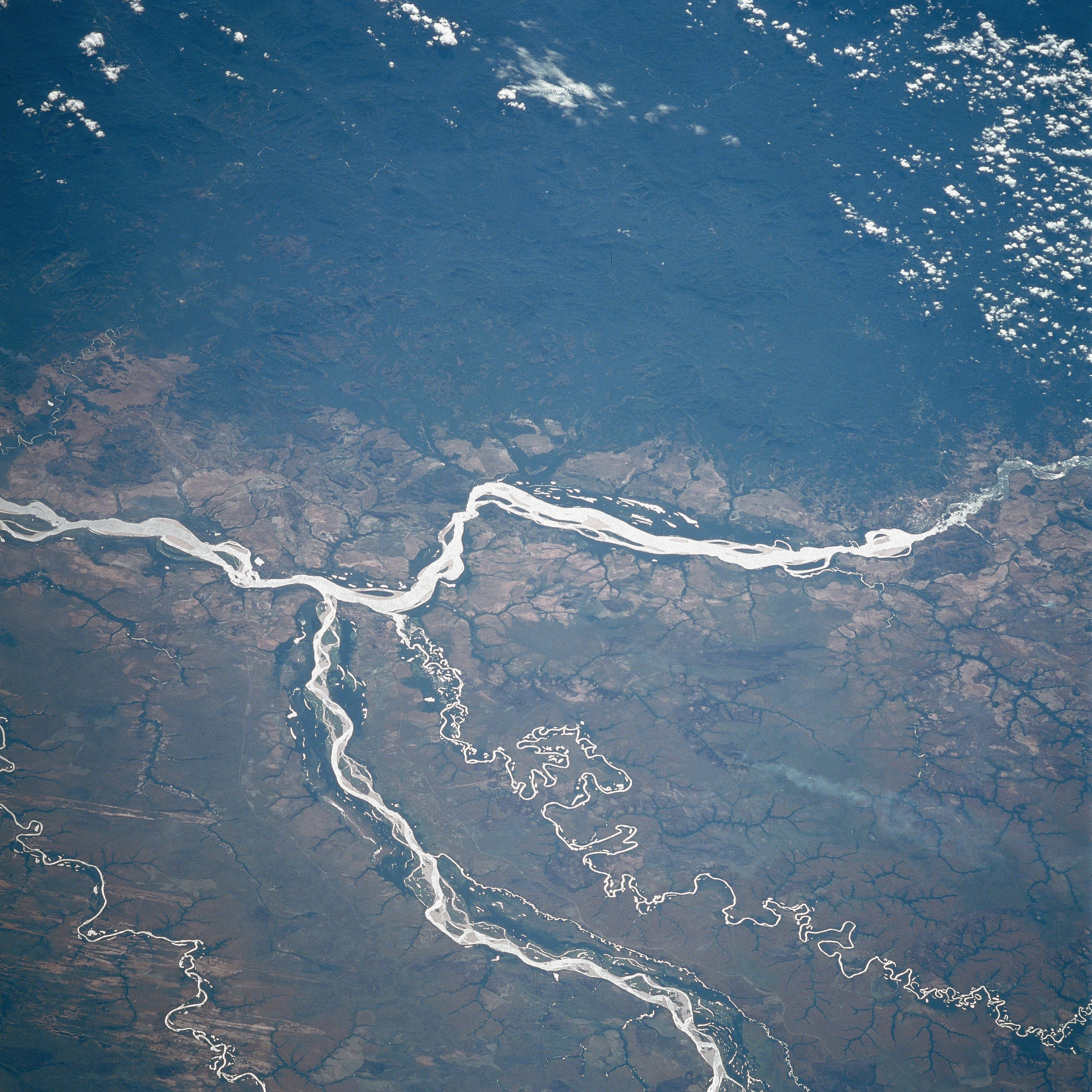 The Orinoco, South America’s second longest river extends from right to left across this southeast-looking view. With its headwaters not located until the early 1950’s, the river now is estimated to be between 1500 and 1700 miles (2415 to 2735 km) long, making it the eighth longest river in the world. In this scene, the Orinoco skirts the heavily forested Paraguaza Range (upper portion of the image) of the western Guiana Highlands. Entering the scene near the bottom center, the Meta River joins the Orinoco just to the left of center of the image and forms part of the border between Colombia (right or south of the river) and Venezuela (left or north of the river). The small-meandering Bita River is also visible just to the south (right) of the Meta River. A large smoke plume is noticeable to the south (right) of the Bita River.